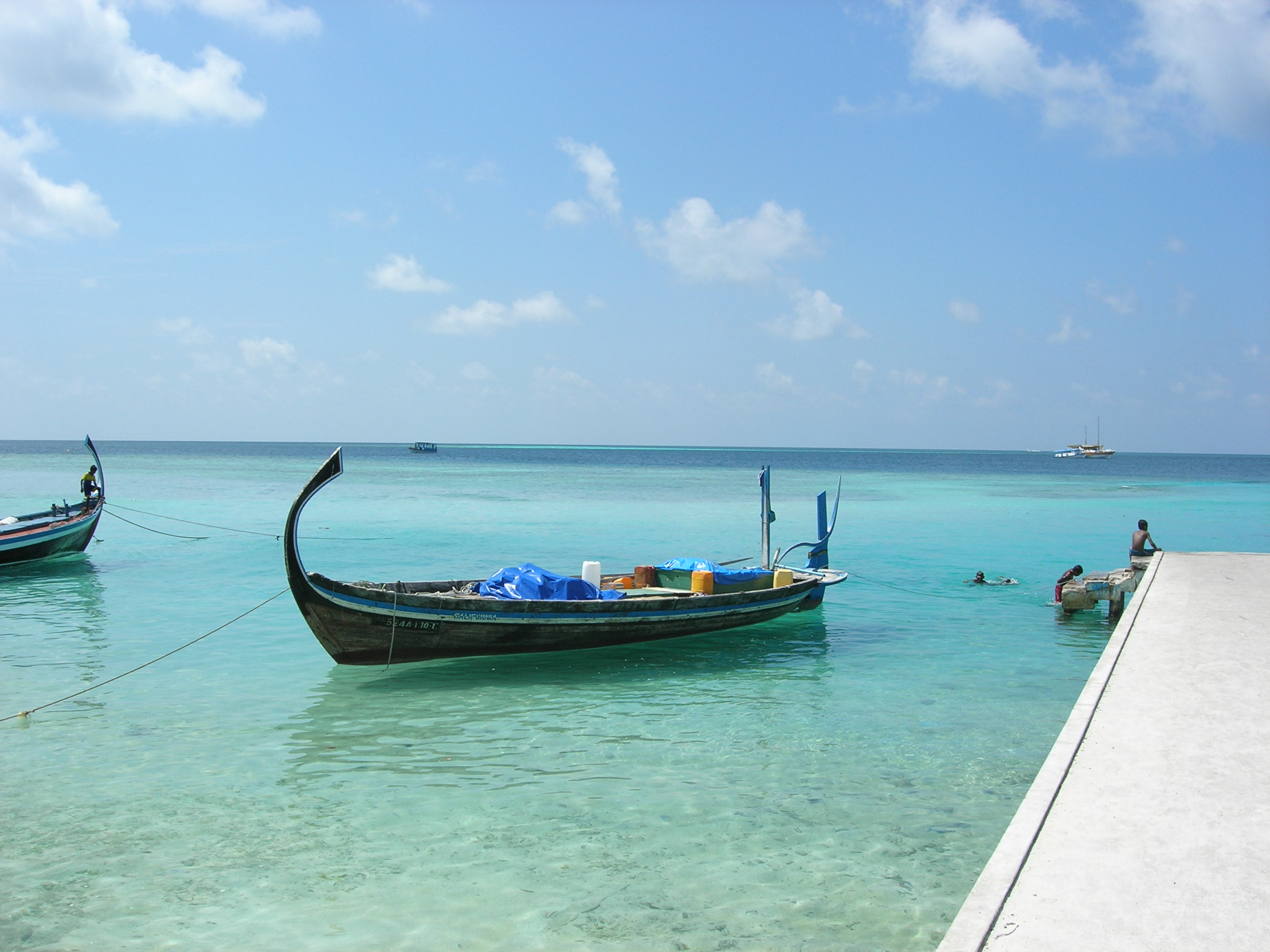 Description =Un dhoni aux Maldives Source =Photo taken by Remi Jouan Date =December 2005 Author =Remi Jouan Cropped version available : Image:Doni aux Maldives cropped.jpg